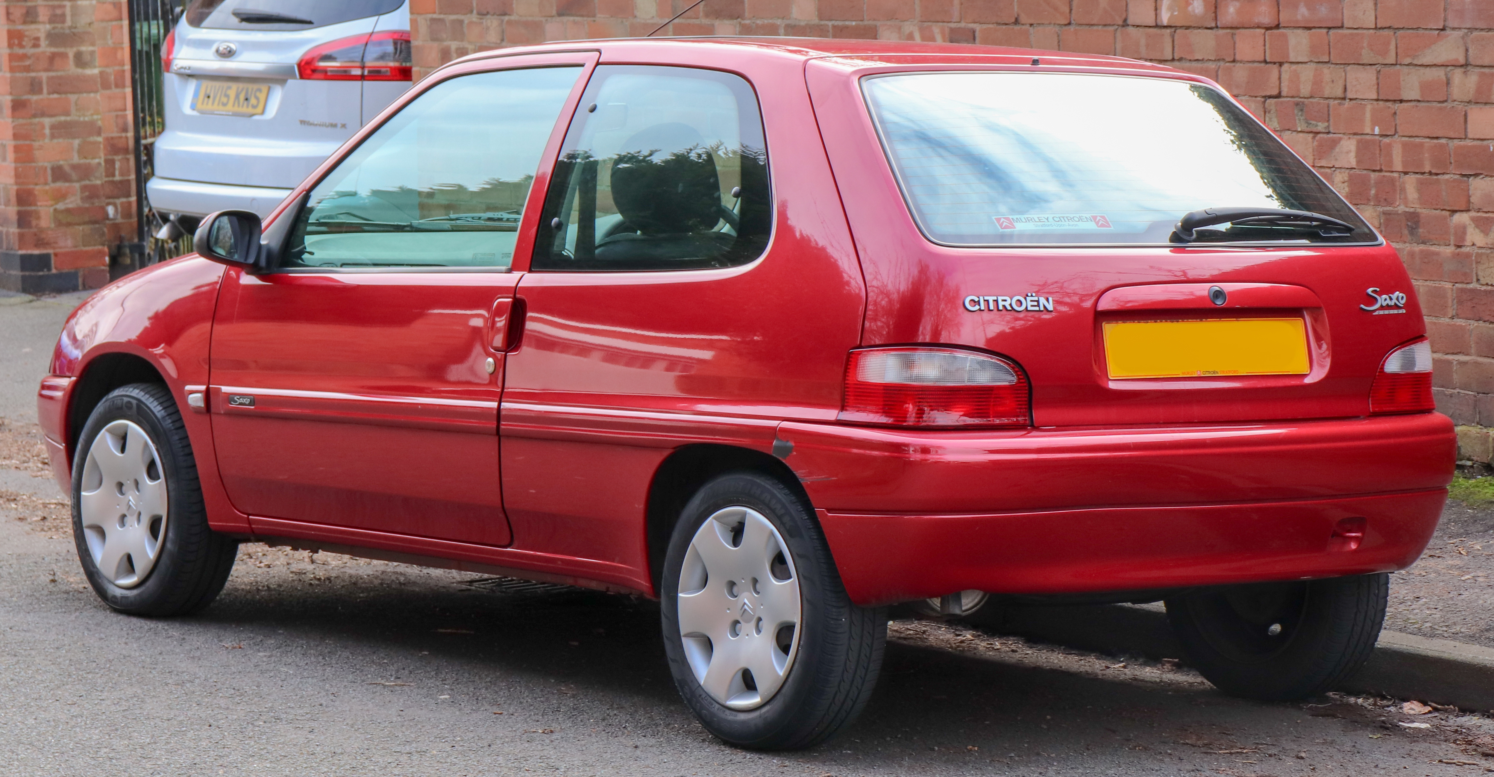 2003 Citroen Saxo Desire 1.1 facelift Rear Taken in Leamington Spa